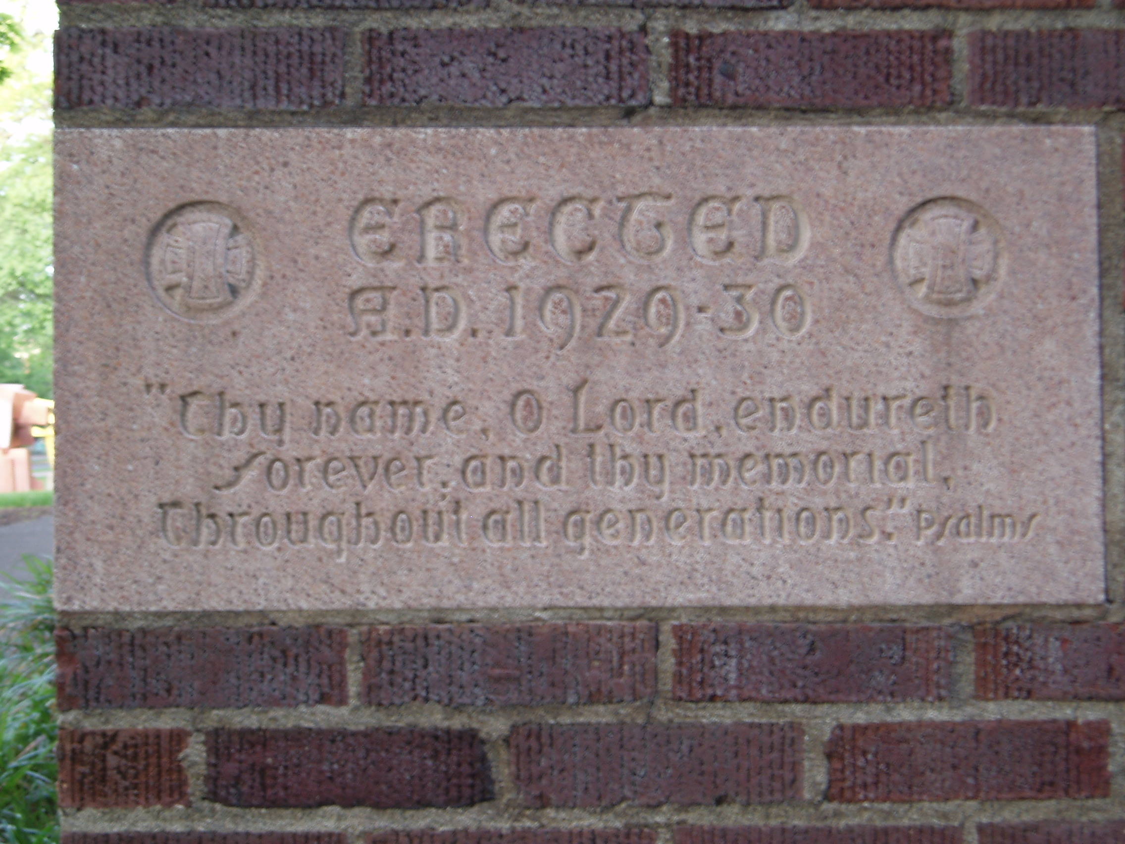 Cornerstone of the Museum of Art (now the Jordan Schnitzer MoA), on the University of Oregon campus in Eugene, Oregon.